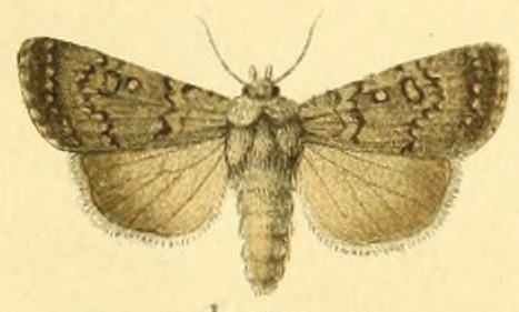 Image from Plate 6 of Die Gross-Schmetterlinge der Erde (The Macrolepidoptera of the World) Vol. 3